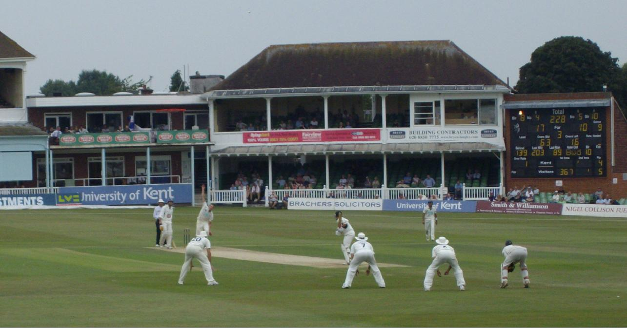 The St Lawrence Ground during Canterbury Cricket Week, Kent County Cricket Club v Hampshire County Cricket Club, July 31, 2008 Bowler is Chris Tremlett, batsman on strike James Tredwell, non-striker Martin van Jaarsveld. Fielders behind the wicket are (l-r): Chris Benham, Sean Ervine, Michael Lumb, Nic Pothas. The other fielder is (I presume) Imran Tahir. The umpire is Nigel Llong.